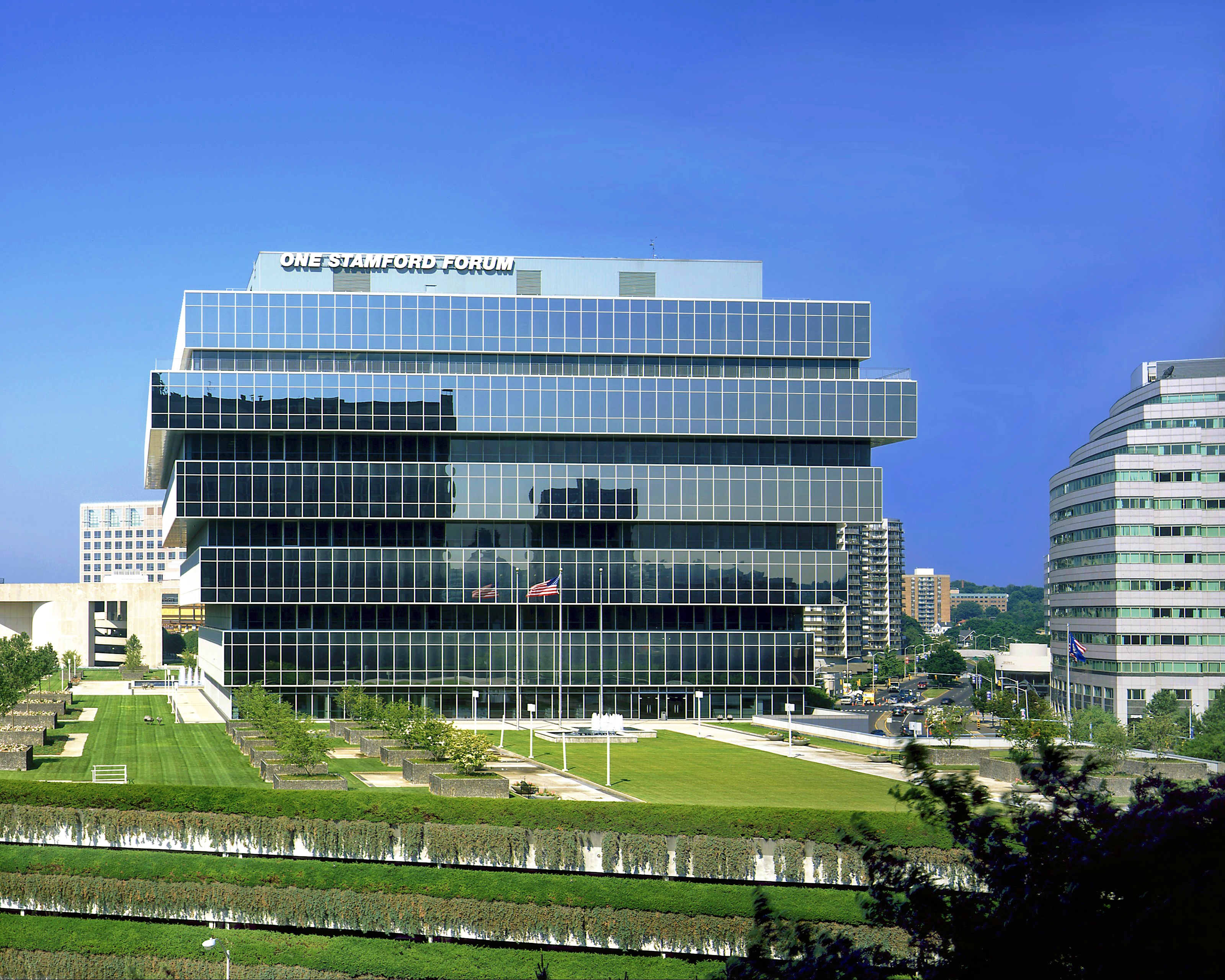 Exterior shot of One Stamford Forum in Stamford, Connecticut. The building, often described as an inverted pyramid, was designed by Victor Bisharat and was completed in 1973 as the world headquarters for GTE. The 485,000 square foot modernist building is currently the headquarters of Purdue Pharma and Aircastle Limited.